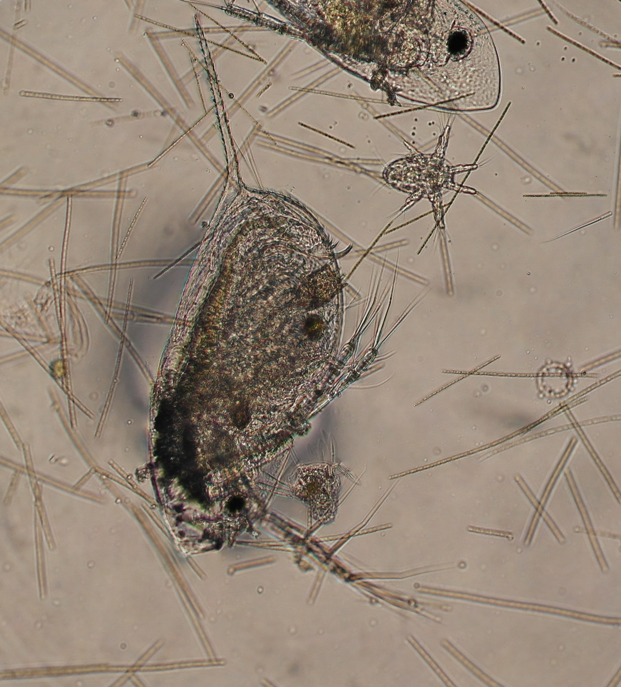 Species Daphnia longispina. Family Daphniidae